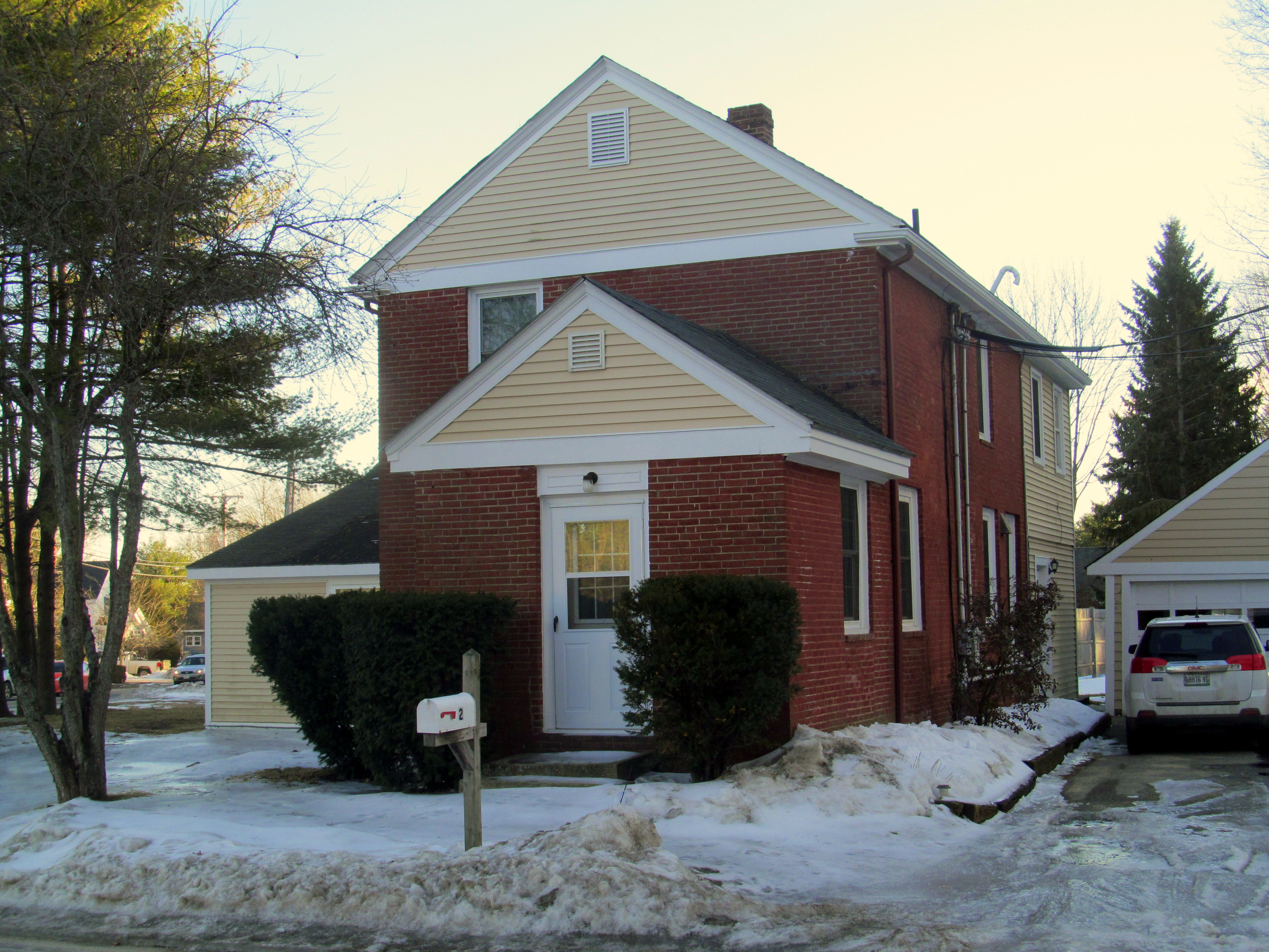 The former West Falmouth substation of the Portland–Lewiston Interurban, now a private house, in January 2017